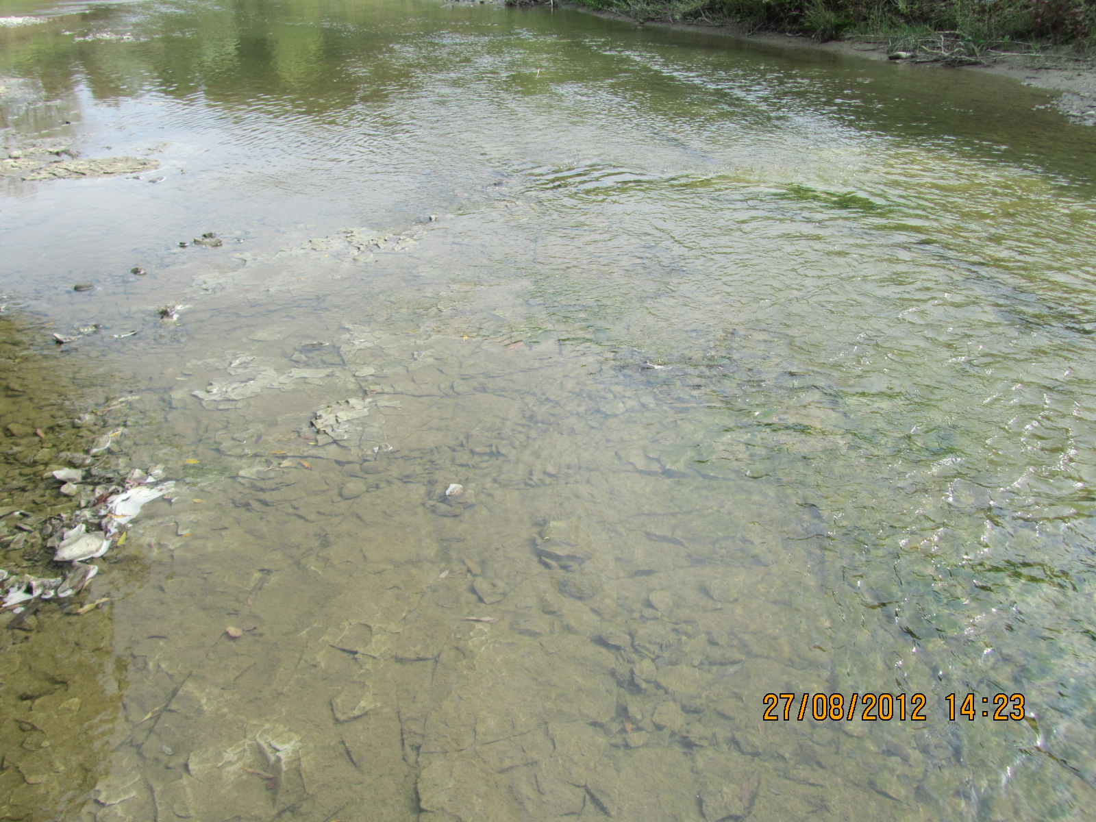 річка Луква біля села Комарів